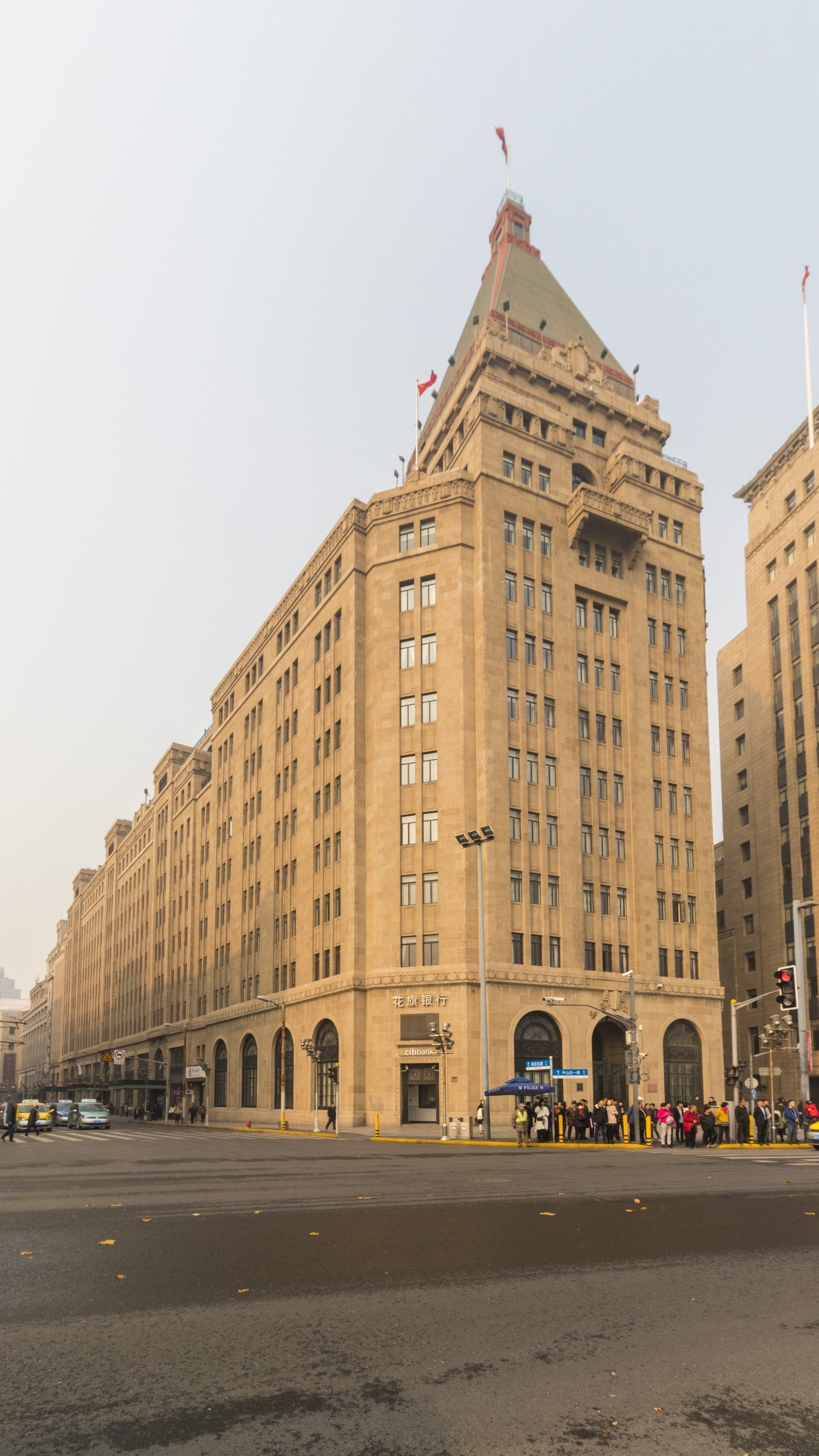 Sassoon House